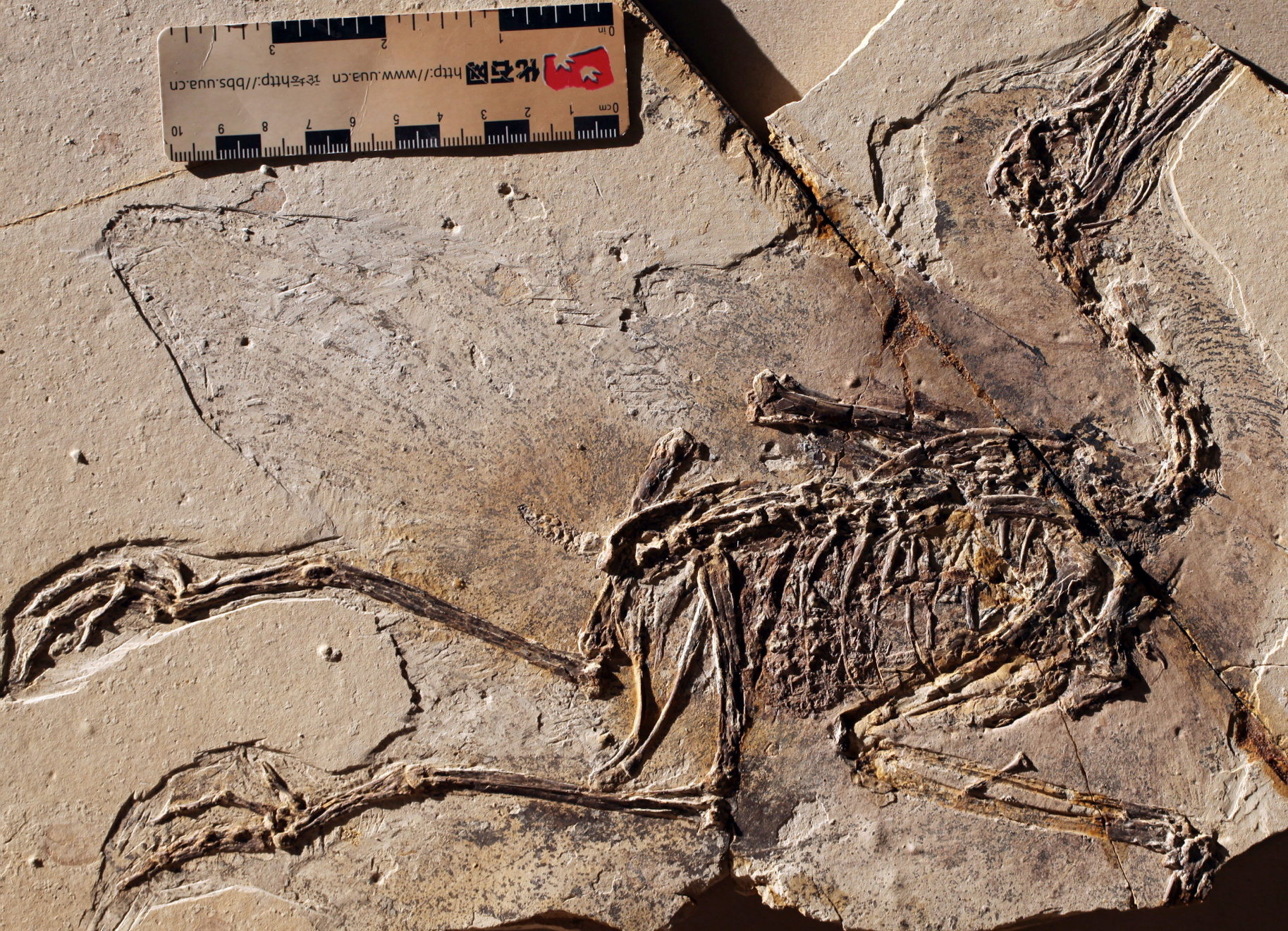 Photograph of Yanornis STM9-51 preserving a few isolated gastroliths in the ventriculus.